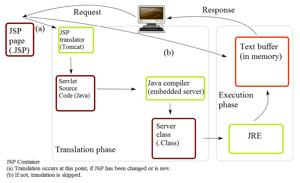 Enlarged the fonts in the original image. Unfortunately, could not save it as SVG